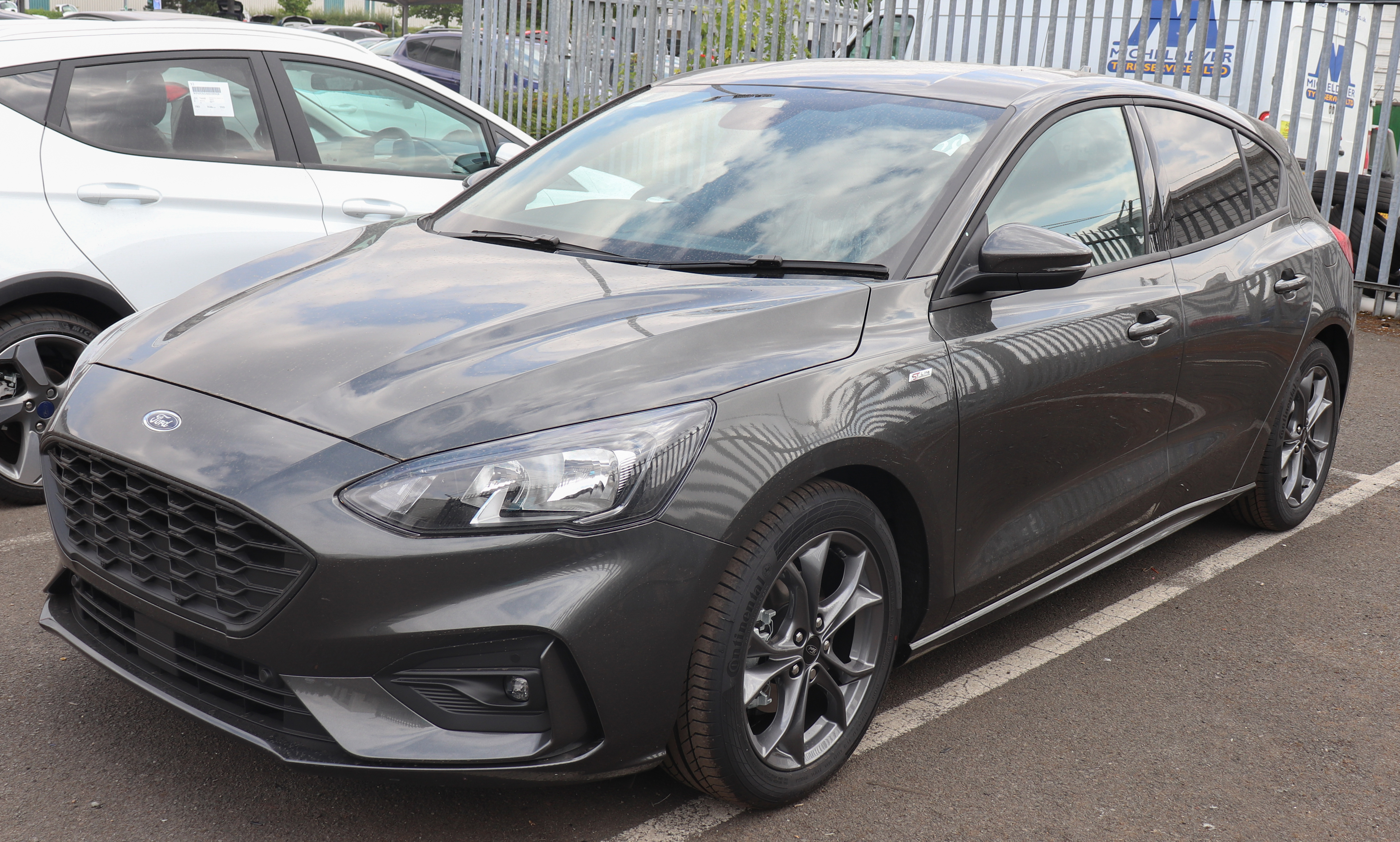 2018 Ford Focus ST-Line Front Taken in Leamington Spa